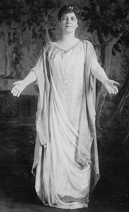 Bain News Service,, publisher. Mrs. Glenna S. Tinnin circa 1913 [no date recorded on caption card] 1 negative : glass ; 5 x 7 in. or smaller. Notes: Title from unverified data provided by the Bain News Service on the negatives or caption cards. Forms part of: George Grantham Bain Collection (Library of Congress). Format: Glass negatives. Repository: Library of Congress, Prints and Photographs Division, Washington, D.C. 20540 USA, General information about the Bain Collection is available at Persistent URL: Call Number: LC-B2- 2636-9